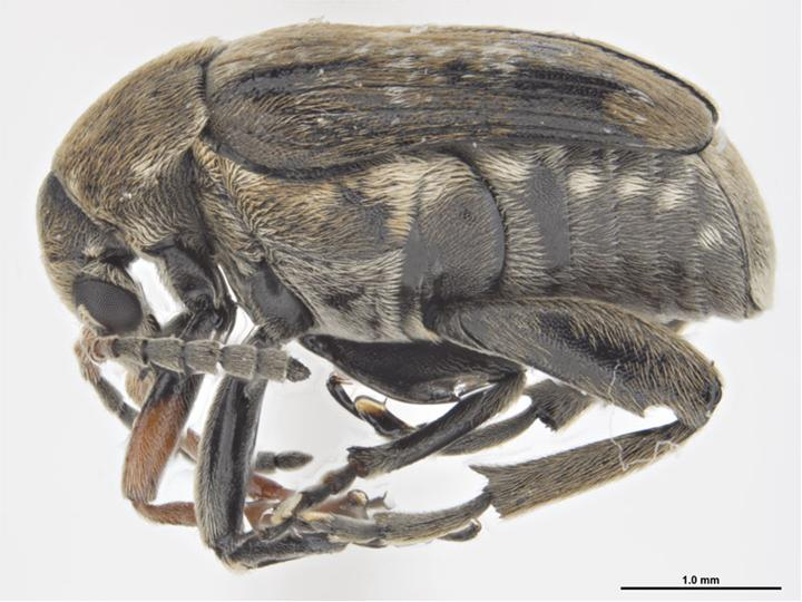 Bruchus rufimanus. Location: Chile.